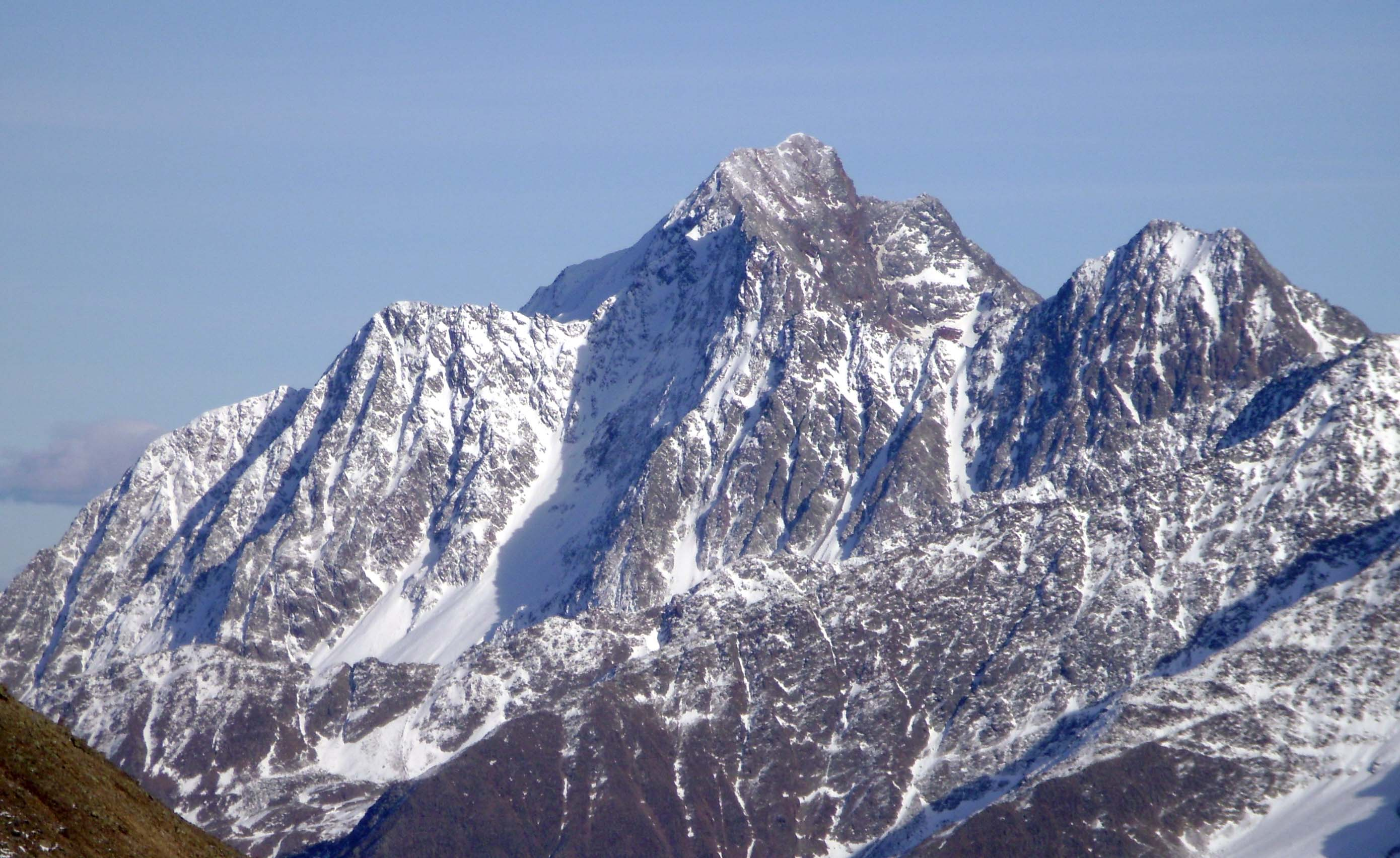 Habicht from Southwest